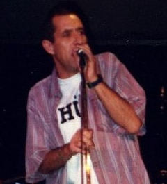 Stephan Remmler.